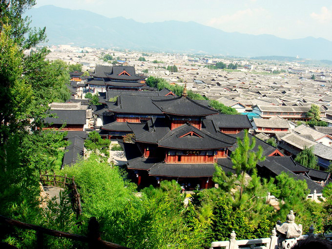 Photo shot by Lukacs in 2005 in China.